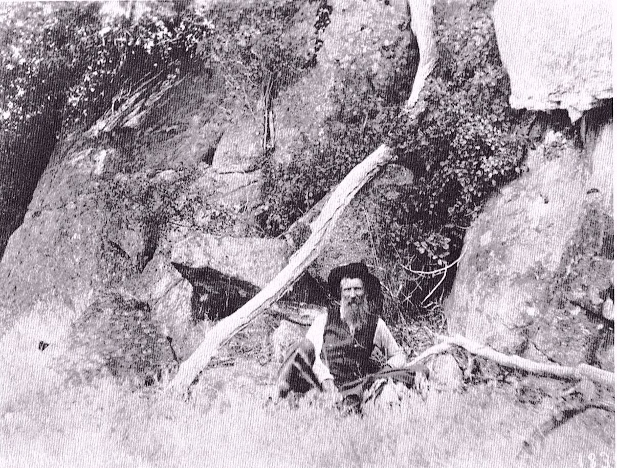 A photo of John Muir near Hetch Hetchy Valley, California taken by T.P. Lukens. Lukens' archives are located at Huntington Library.